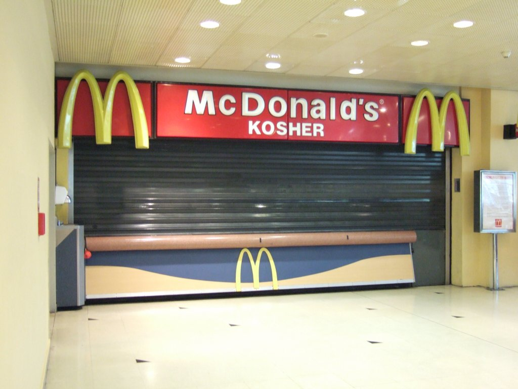 Kosher Mc Donald's Restaurant in the Abasto Shopping Mall in Buenos Aires, Argentina. The photo was taken on a Saturday (Shabbat) and therefore the restaurant was closed.